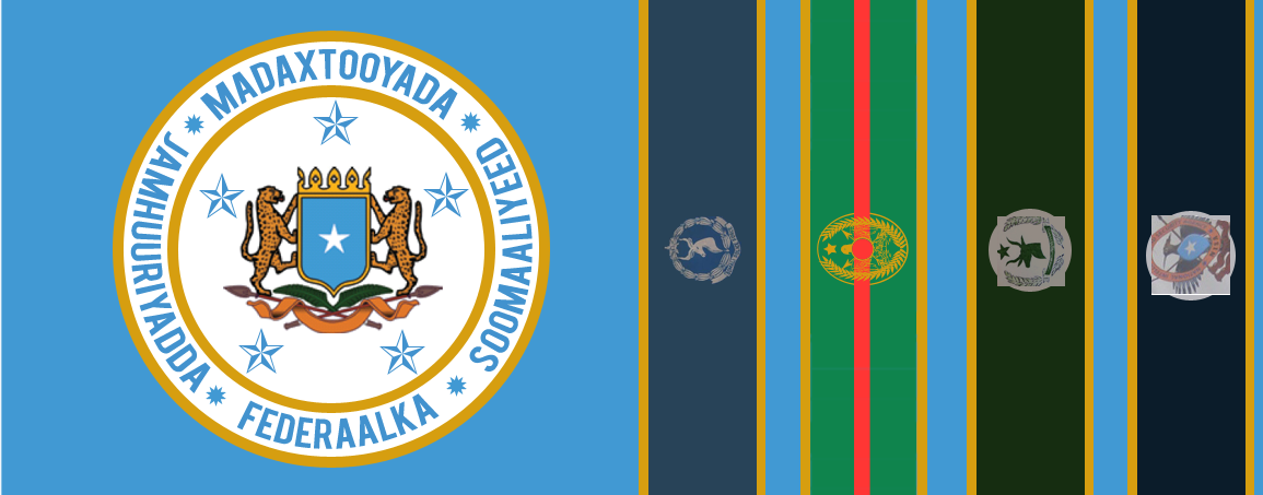 emblem of the Presidency of the Federal Republic of Somalia, reflecting the office of the presidency and the 4 national service branches.